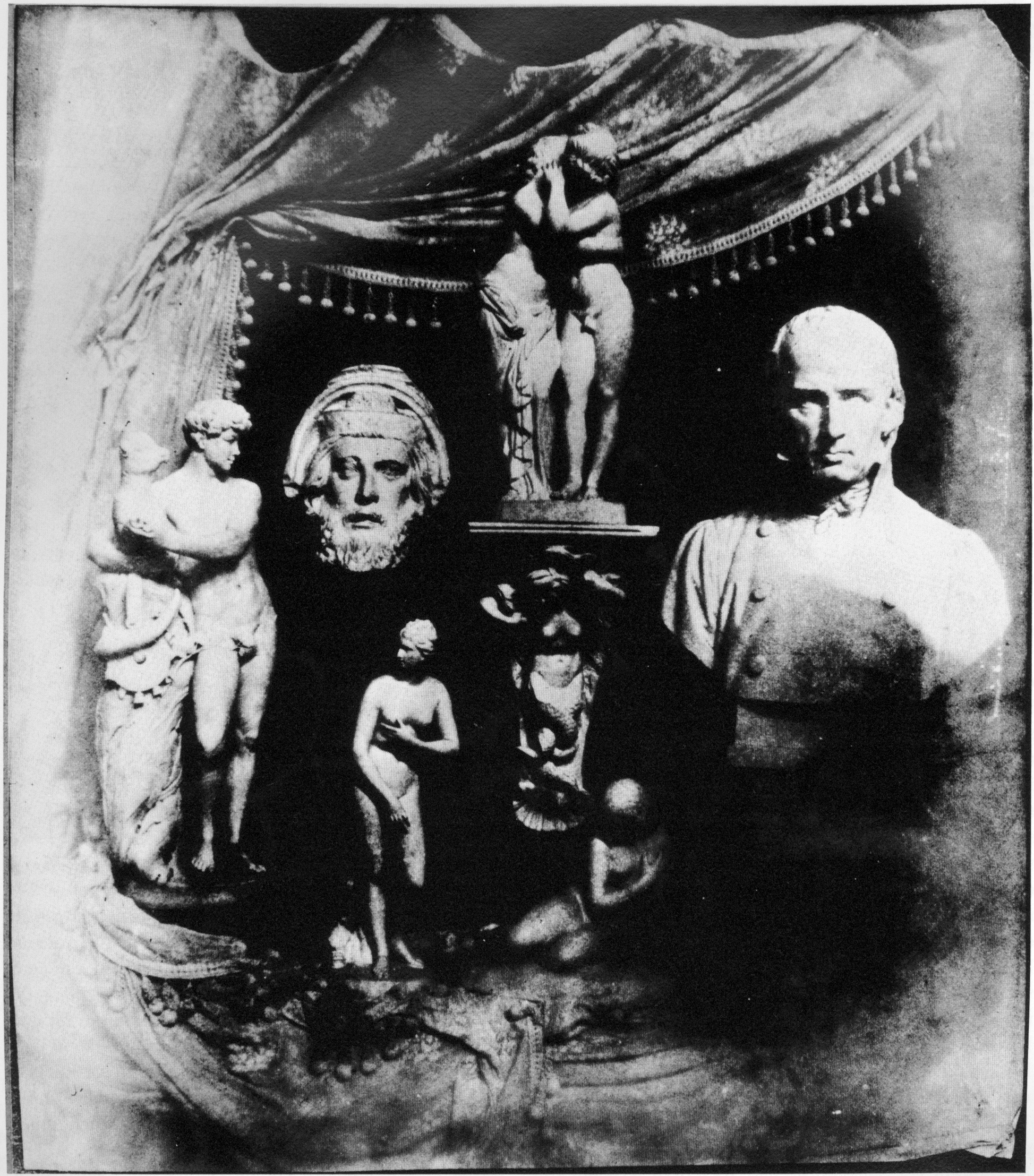 Hippolyte Bayard (1801–1887): Still life with plaster casts c.1839